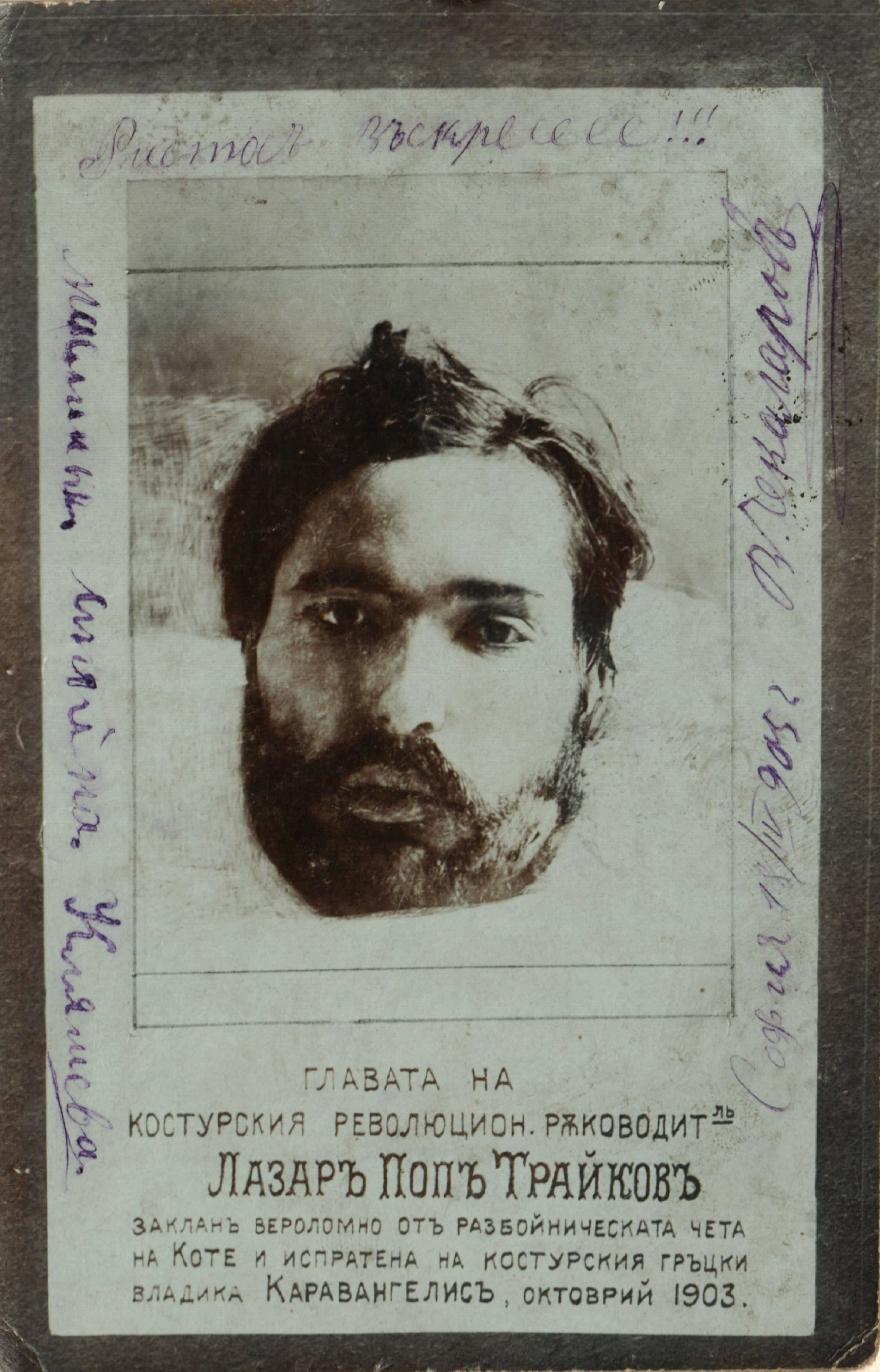 Lazar Pop Traykov